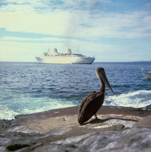 Reproduction ID: P96977 Maker: Marine Photo Service Date: circa 1970 Materials: Cellulose acetate negative This photograph is featured in Waterline, a new photographic exhibition revealing the joys and trials of the heyday of cruising. It's on at the National Maritime Museum until October 2011